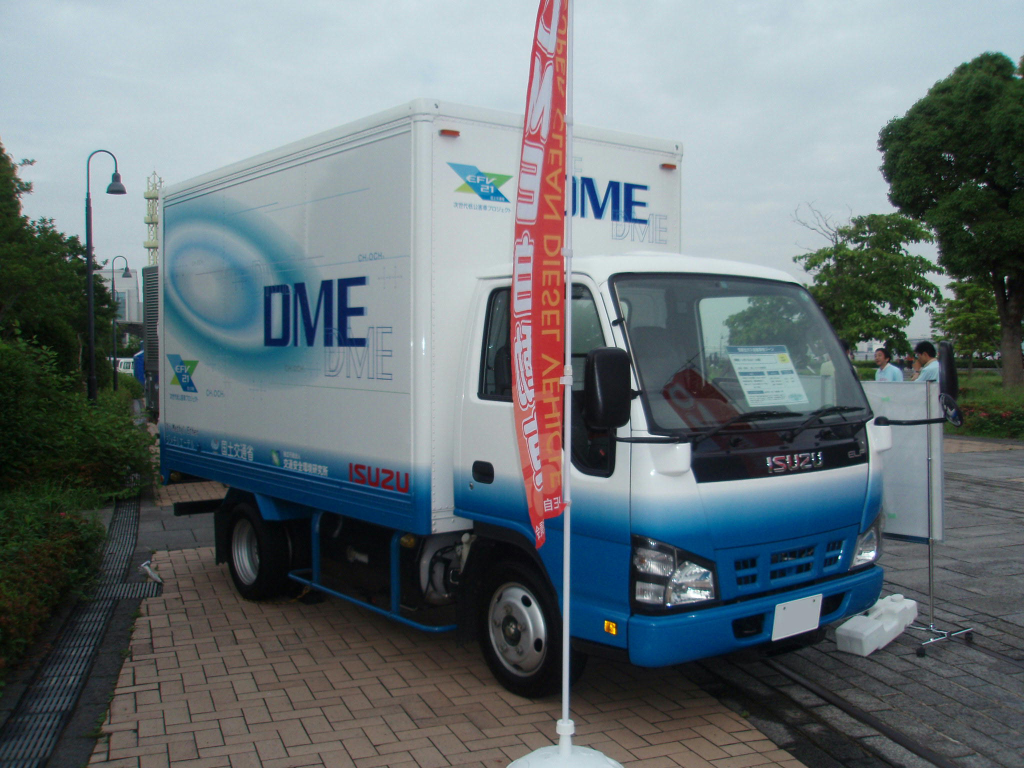 ISUZU_ELF, DME-Study Car